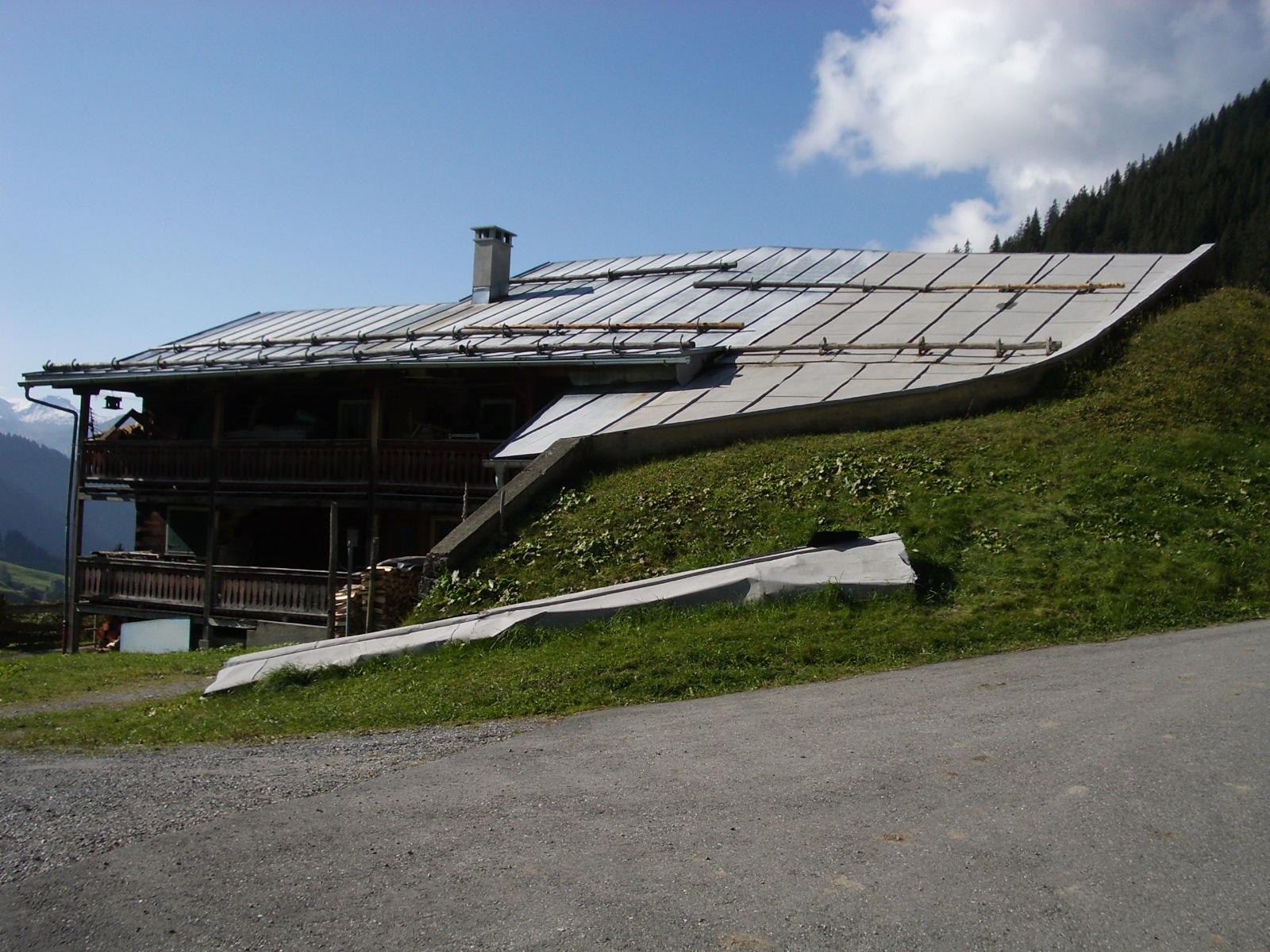 St.Antönien GR, Switzerland